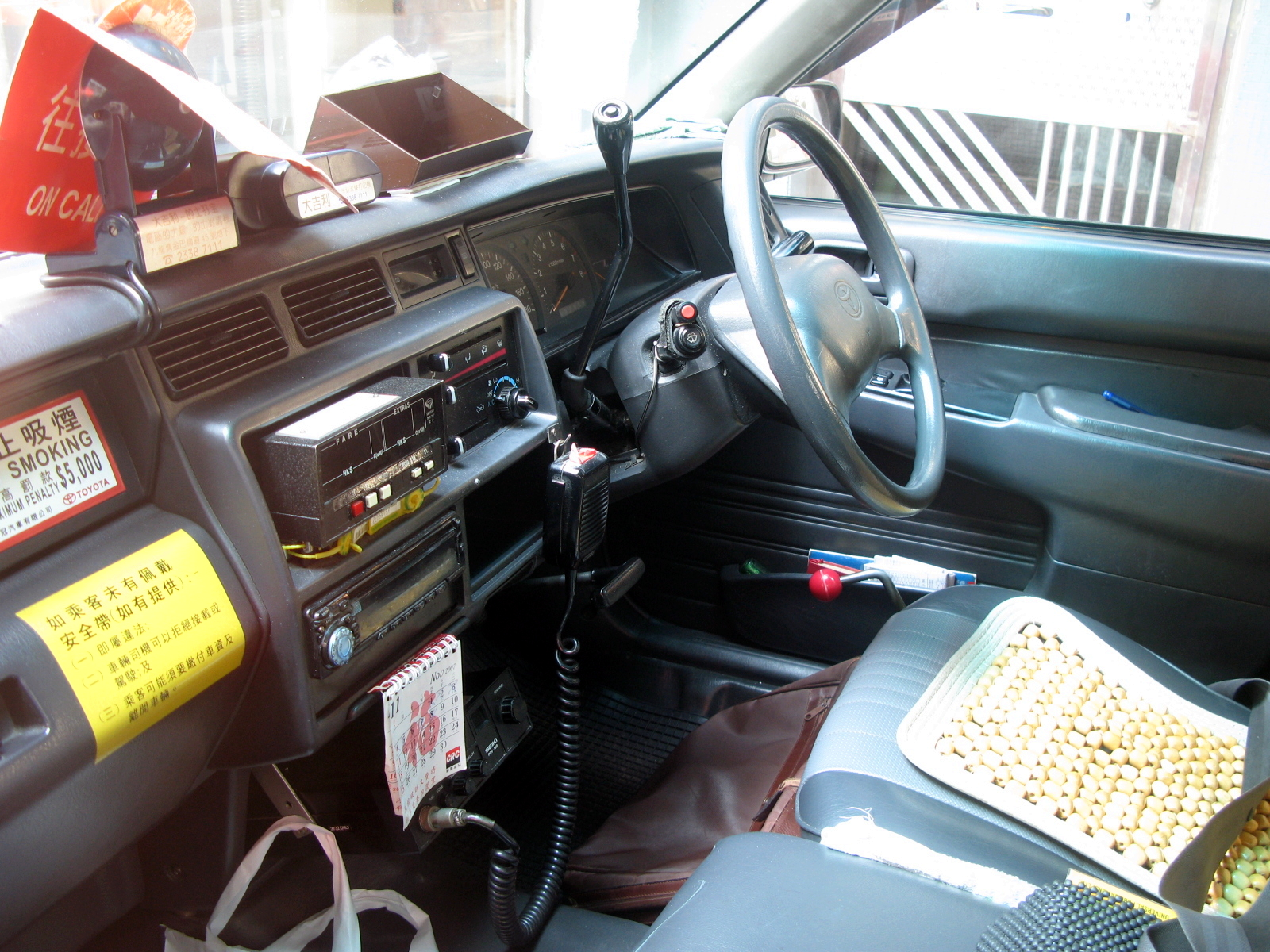 Toyota Comfort Interior